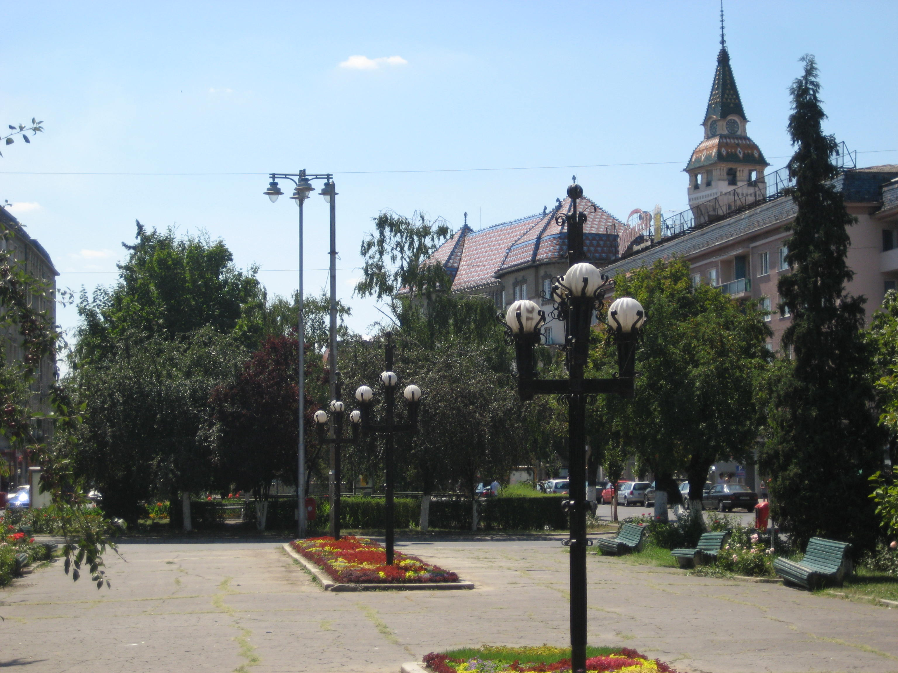 Mures County